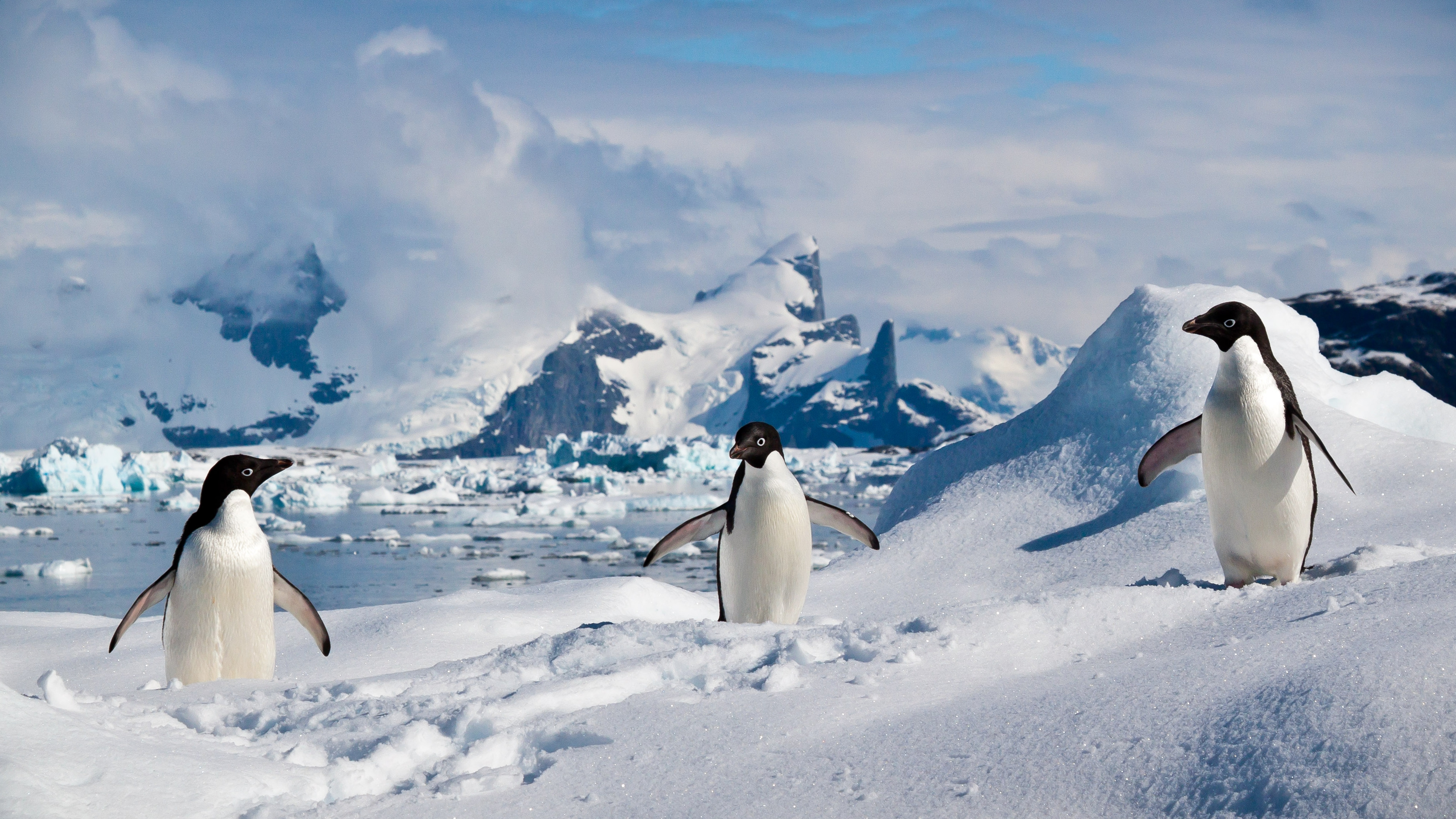 Adelie penguins in the South Shetland Islands